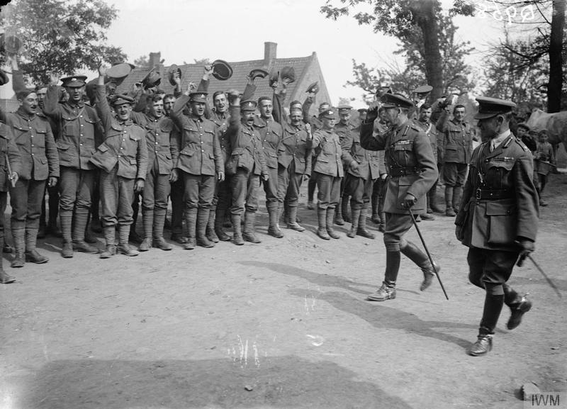 The Battle of the Somme, July-november 1916 King George V with Major-General Havelock Hudson (commanding 8th Division) walking through the streets of Fouquereuil, where the King was cheered by the men of the 25th Infantry Brigade, 11th August 1916.